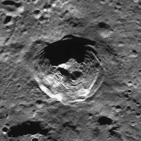 LROC image of De Forest crater